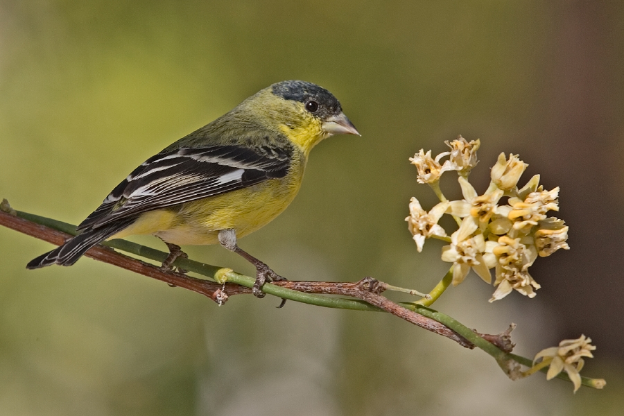 Carduelis psaltria - Lesser Goldfinch (Male), Carol's Garden, Palm Canyon Resort, Borrego Springs, California